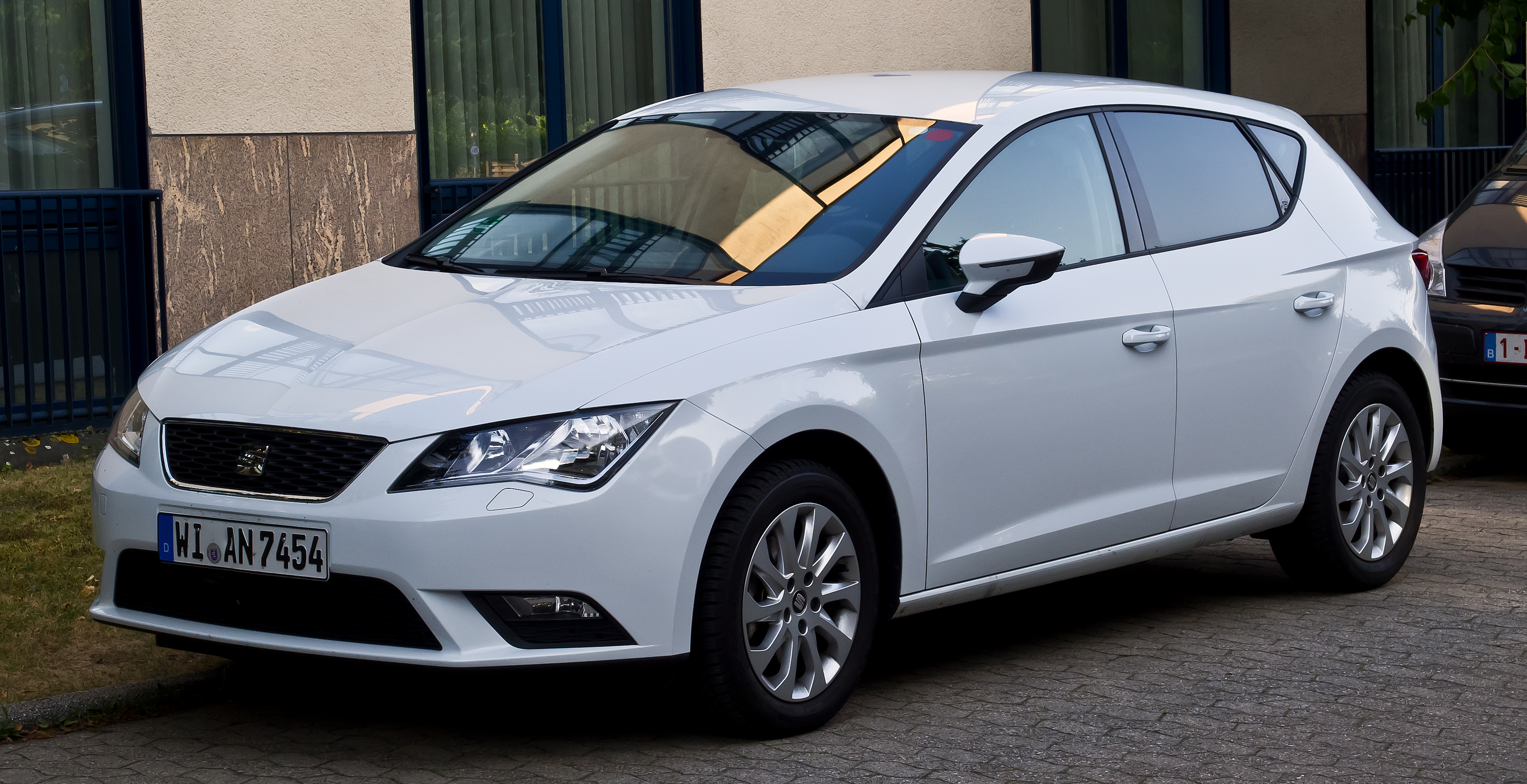 Seat Leon 1.4 TSI Start&Stop Style (III)